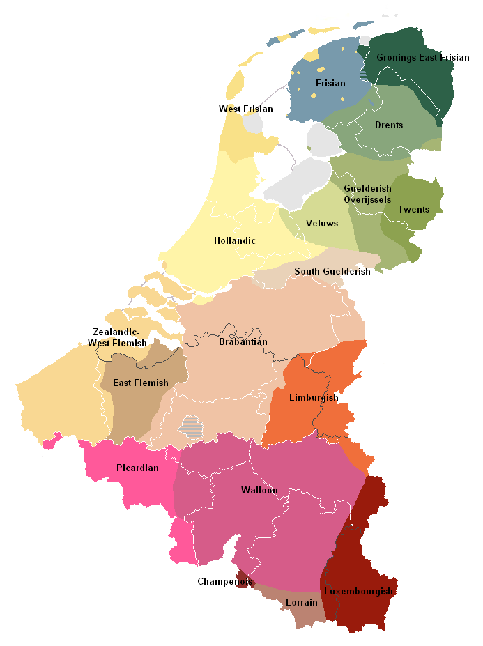 Main dialects, regional languages and minority languages in the BeNeLux